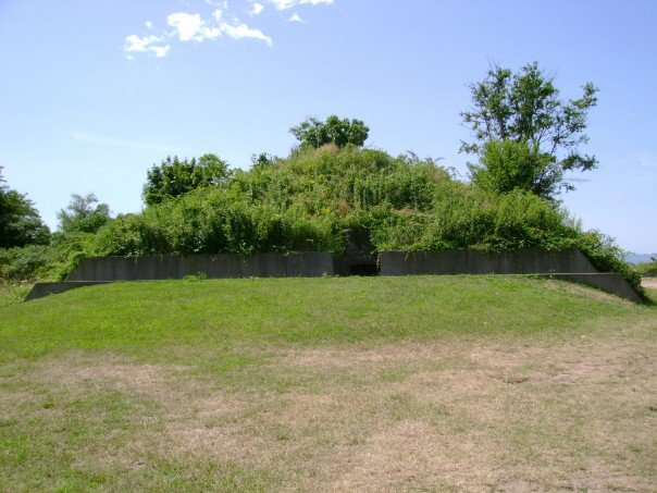 Powder magazine at Fort Nathan Hale in New Haven, CT.